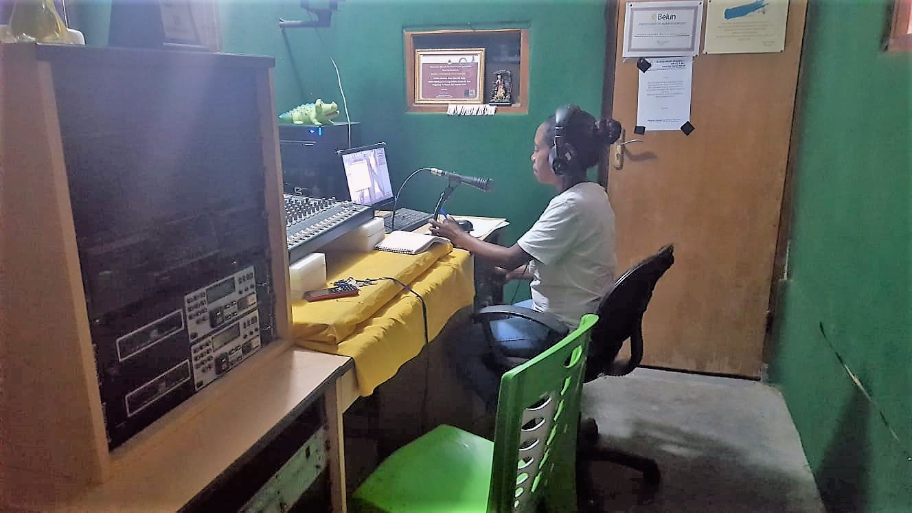 Presenter Laurensa of Radio Povo Viqueque at work in Dilor, East Timor